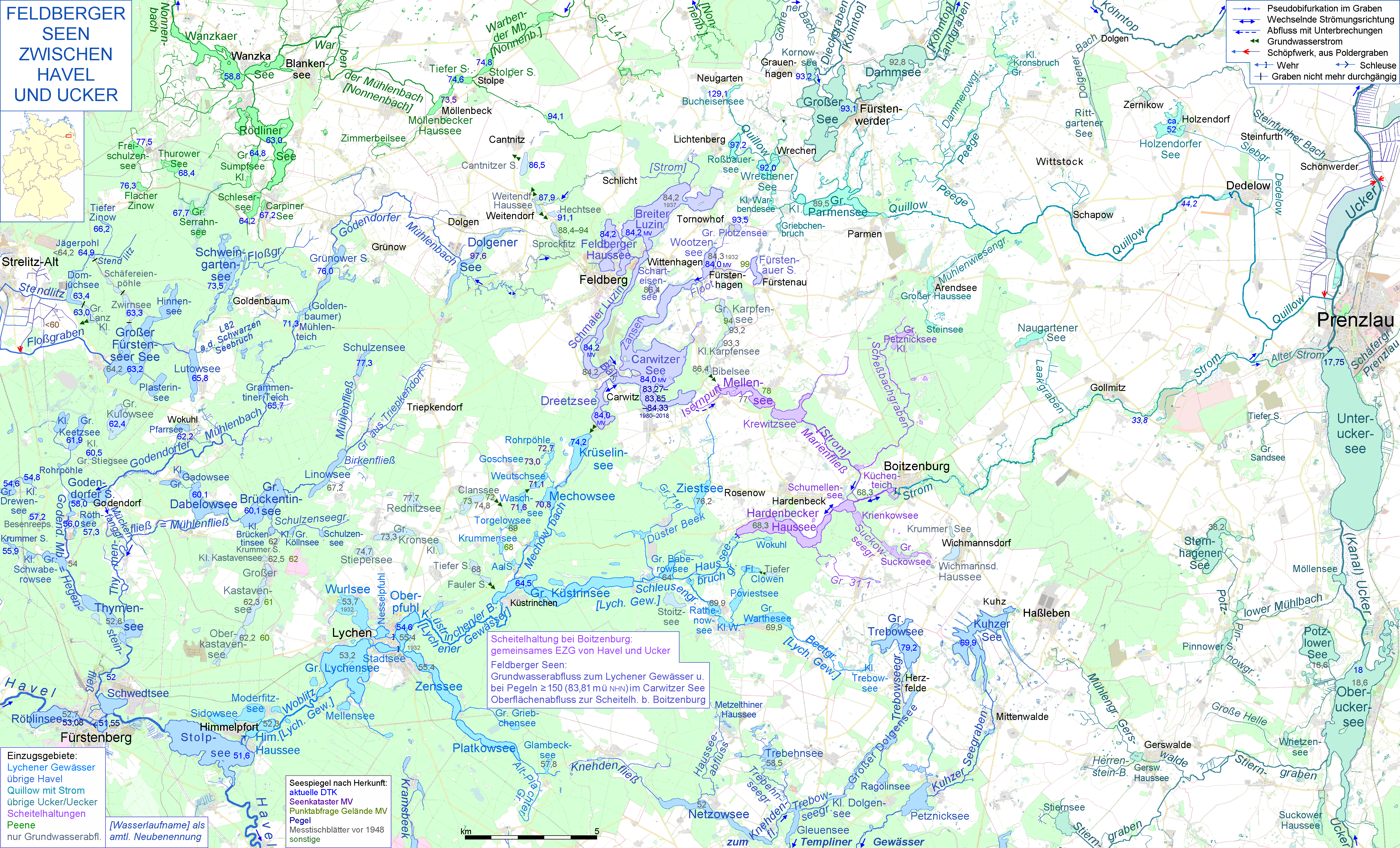 Map of the Lakes around Feldberg (the municipality of Feldberger Seenlandschaft), showing their ambiguating routes of discharge, the two western routes via ground water and via open-air waterways to river Havel at Himmelpfort near Fürstenberg and the eastern course to river Ucker near Prenzlau This map may be incomplete, and may contain errors. Don't rely solely on it for navigation.